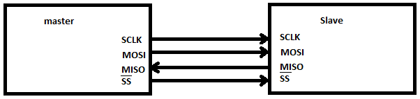 Schematic of SPI interface